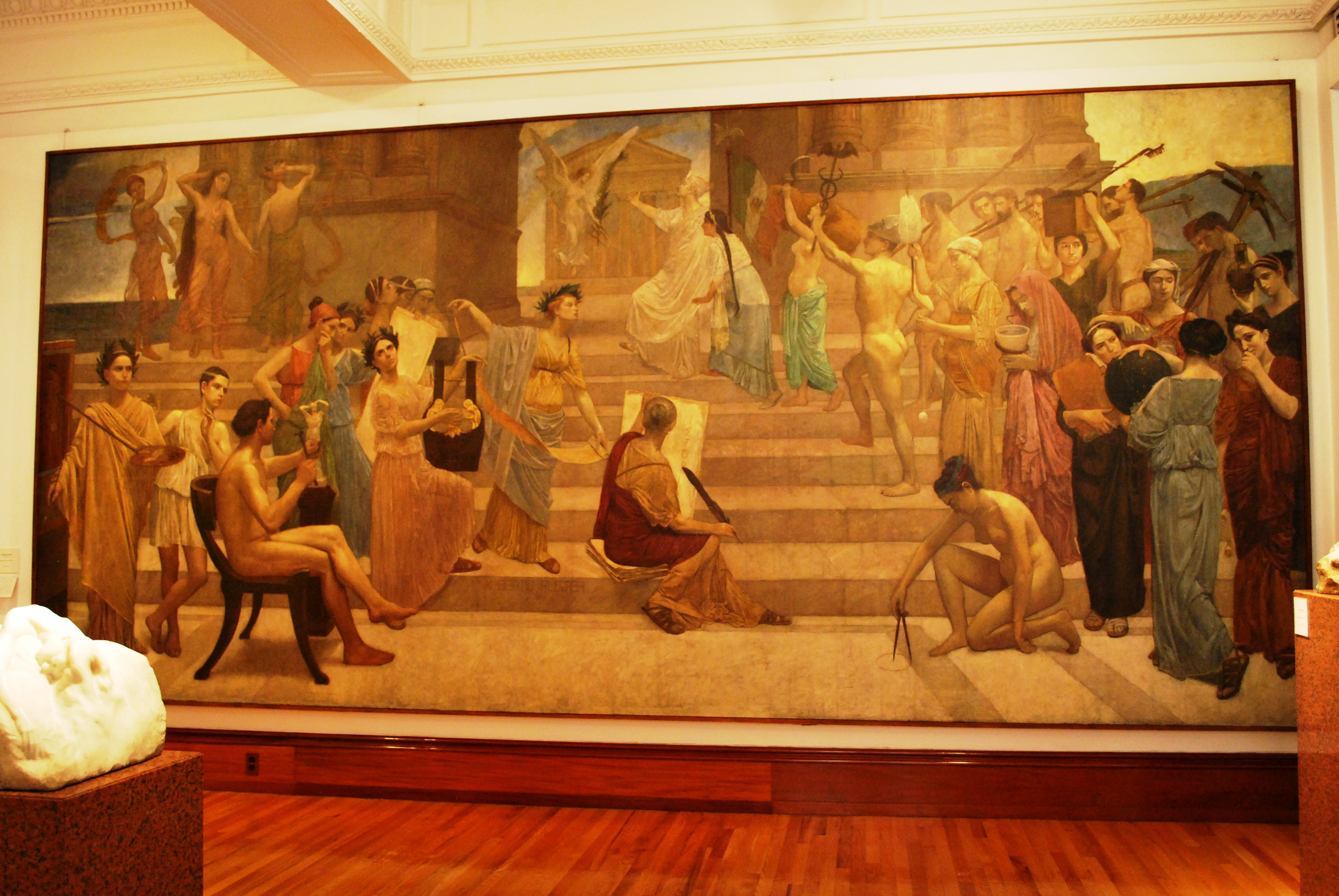 Mural "Apoteosis de la paz" by Alberto Fuster (1870-1922) at the Museo Nacional de Arte in Mexico City